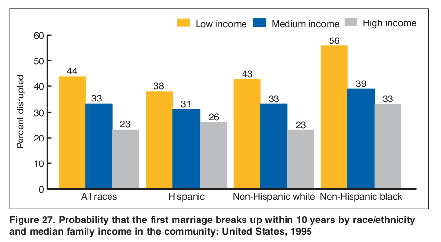 This is a figure illustrating the greater rates of marital dissolution by income and race/ethnicity in the U.S. in 2002.